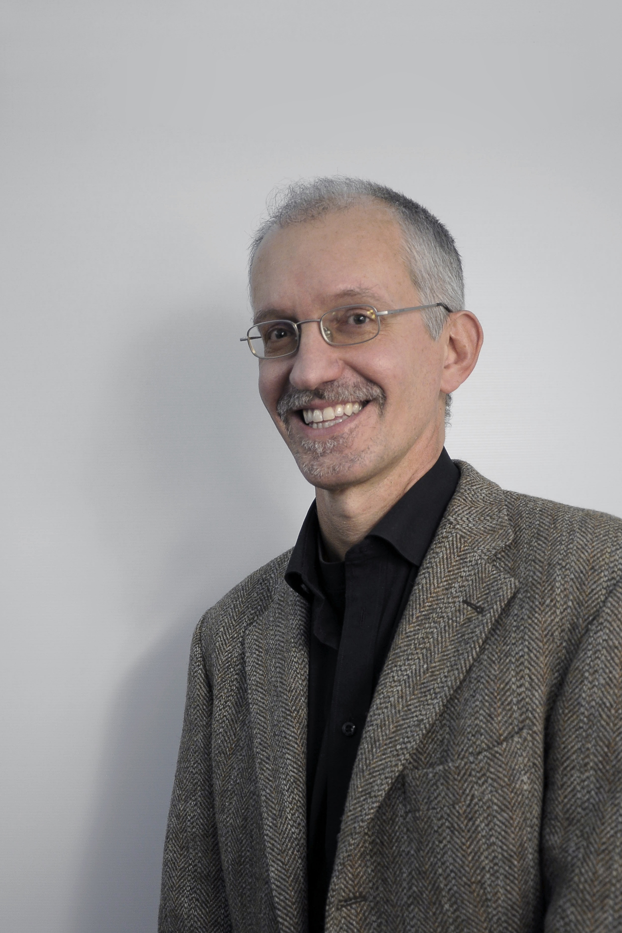 Italian computer scientist Marco Dorigo. This picture was taken in Genoa, Italy, at the 2011 Festival della Scienza.